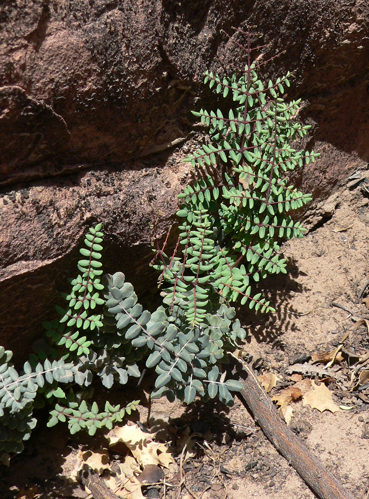 Pellaea truncata in Pine Creek Canyon, Red Rock Canyon, Spring Mountains, southern Nevada (NNPS field trip)